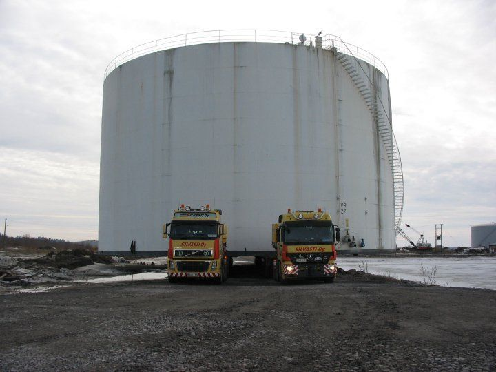 Oversize load